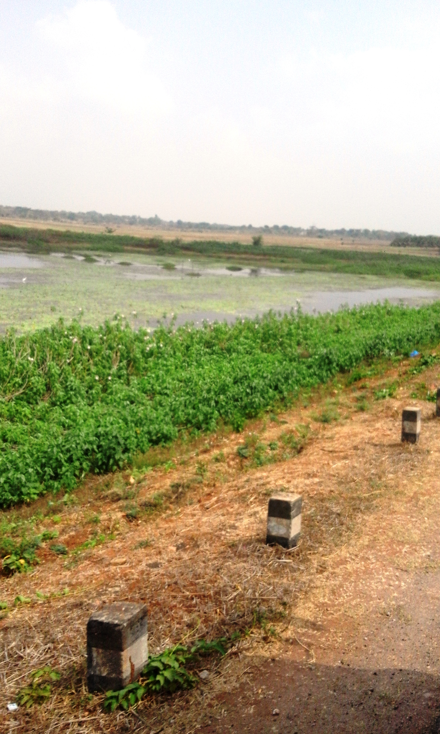 H.D.Kote Taluk, Mysore district, Karnataka province, India